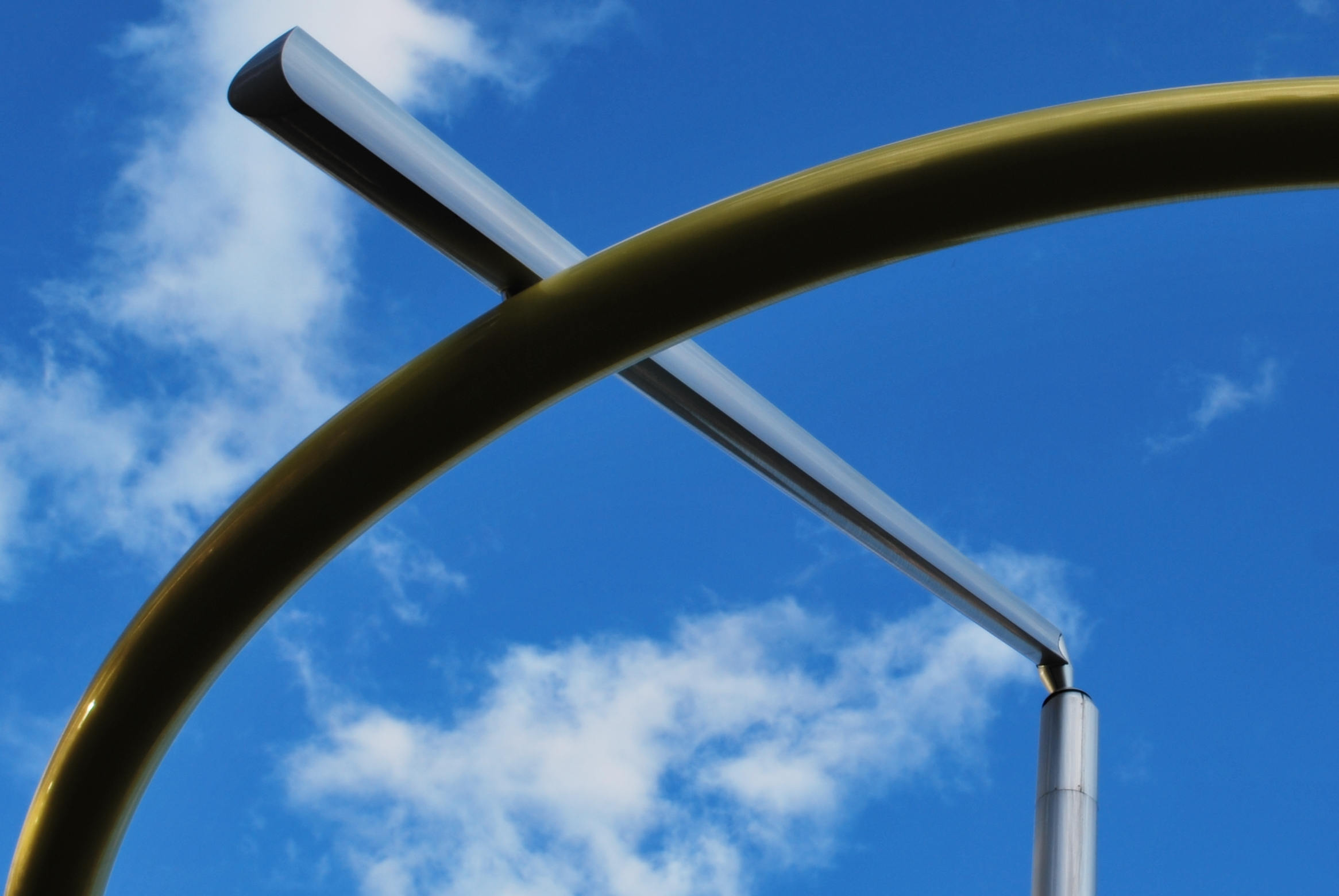 'Halo' closeup shot